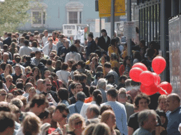 Picture from Fringe City on the opening day of the 2007 Brighton Festival Fringe. The picture shows crowds in Jubilee Street to see the Fringe Showcase.